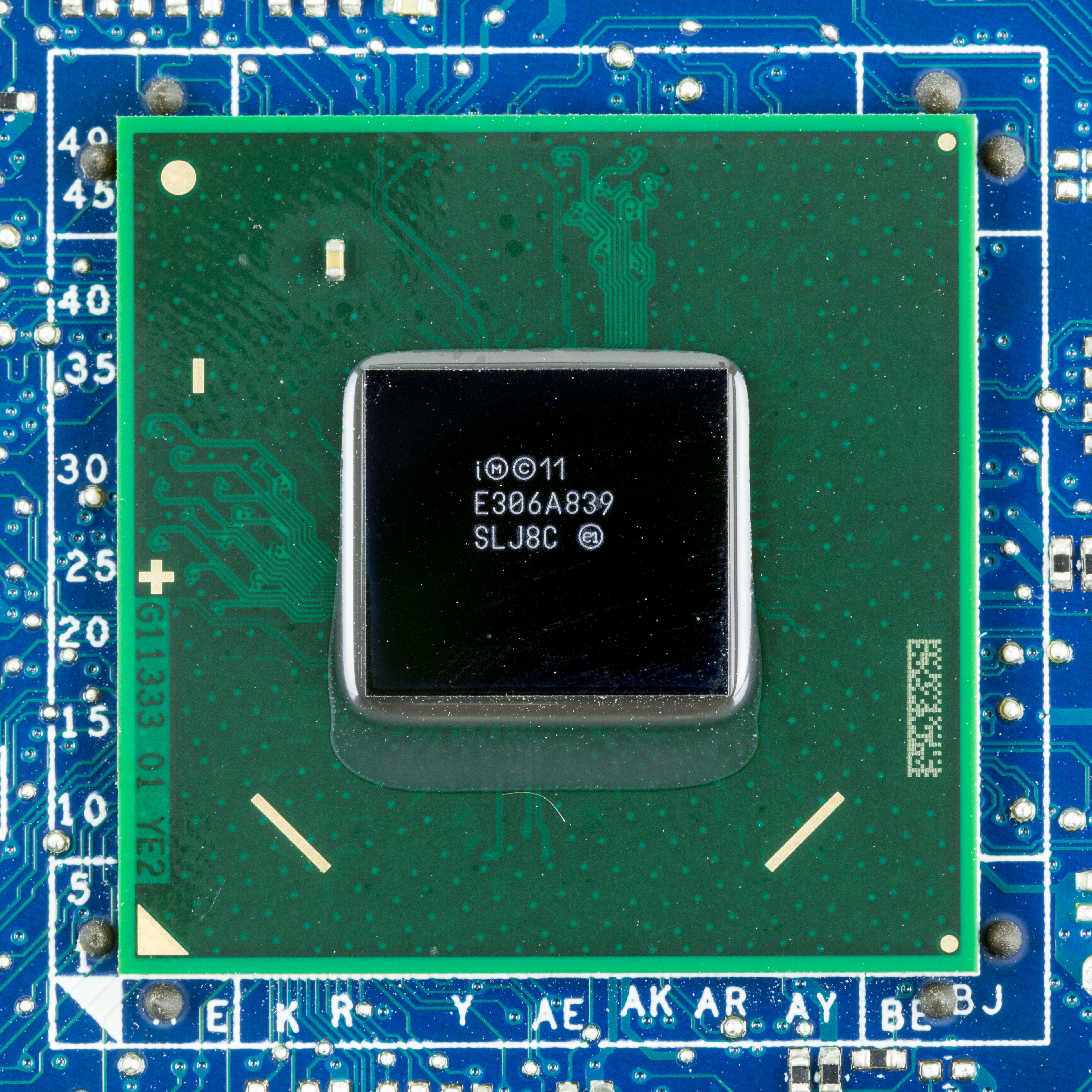 Acer TravelMate P253-M-32344G50Maks - motherboard Q5WV1 LA-7912P - intel BD82HM77 PCH (SLJ8C) Panther Point